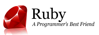 The logo, selected as winner of the Ruby Logo Contest